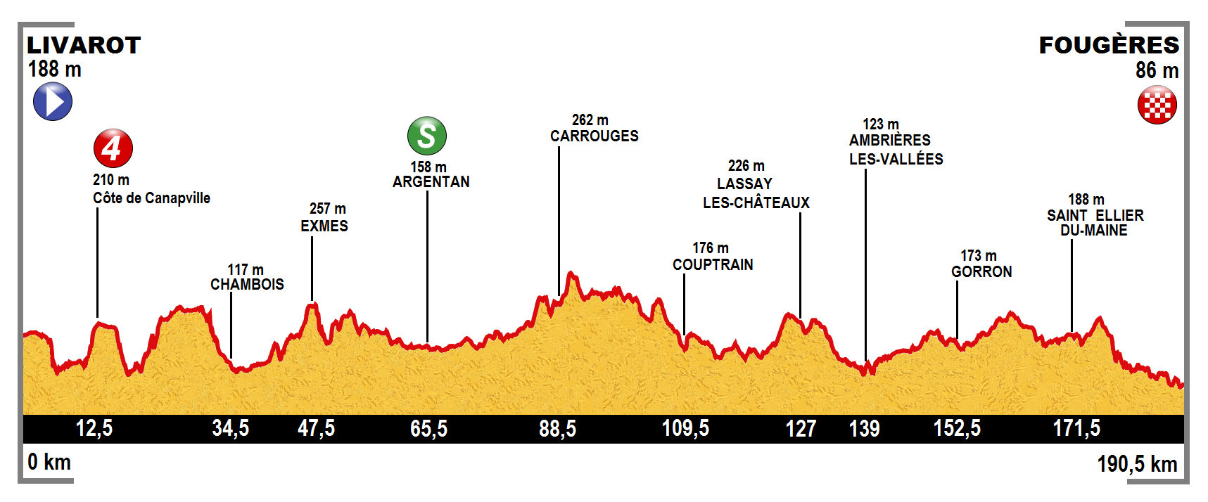 Profile of the 7th stage of the Tour de France 2015